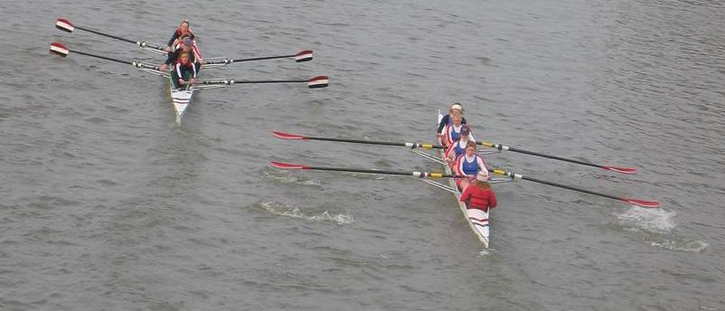 Jamie Wilton, , BUSA Head Uni Bham BC WC4+